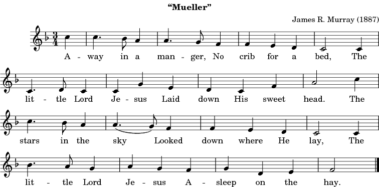 Melody of "Away in a Manger" by James R. Murray (1887), commonly known as "Mueller"